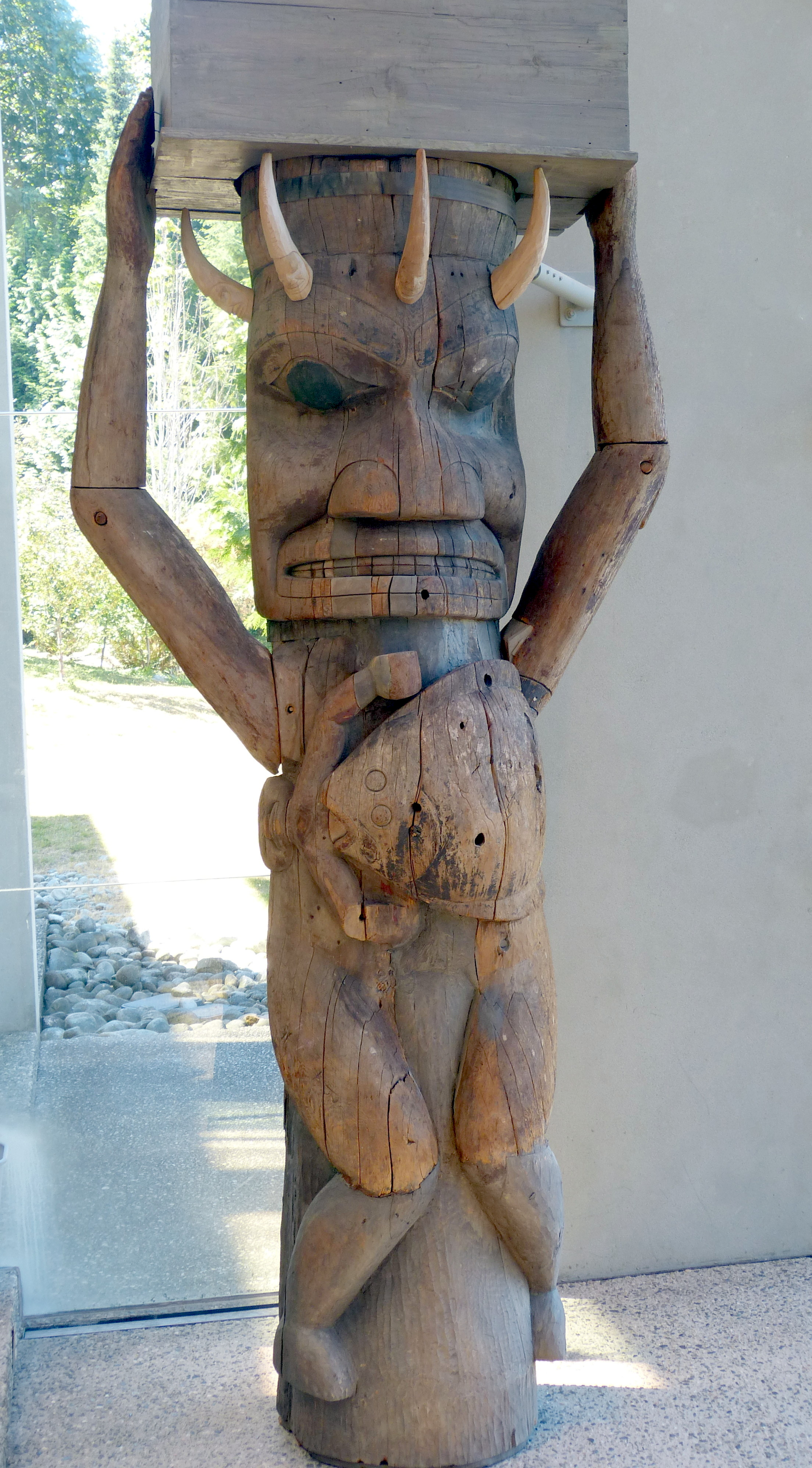 Vancouver ( British Columbia ): Museum of Anthropology: Nisga'a Pool of Laay ( 1870 )